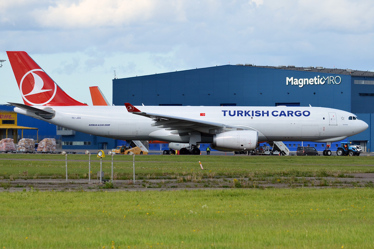 Turkish Airlines Cargo, TC-JOU, Airbus A330-243F